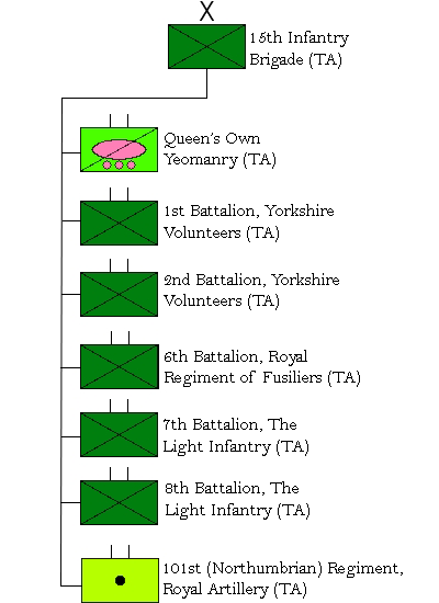 15th Infantry Brigade (TA)